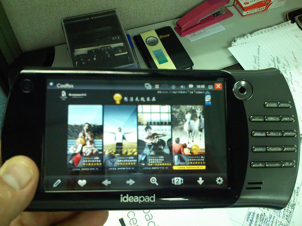 Lenovo IdeaPad U8